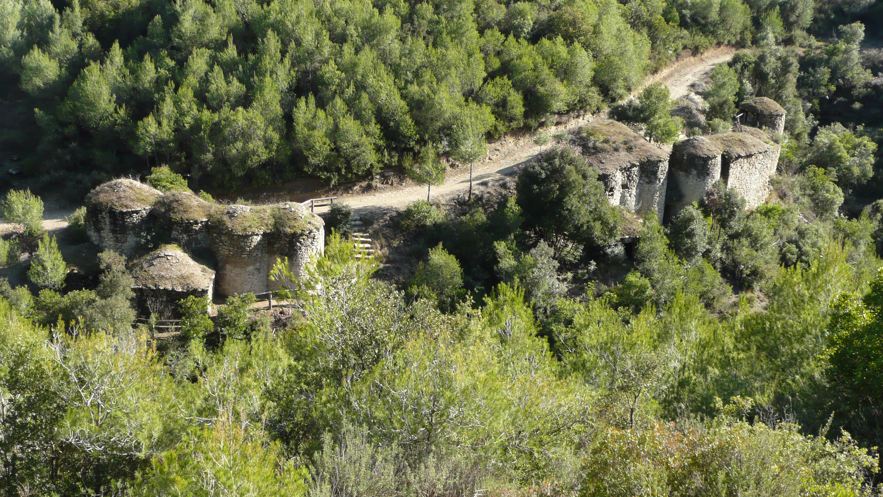 Groupe of wine presses in Natural Park of Sant Llorenç del Munt i l'Obac , Barcelona, España